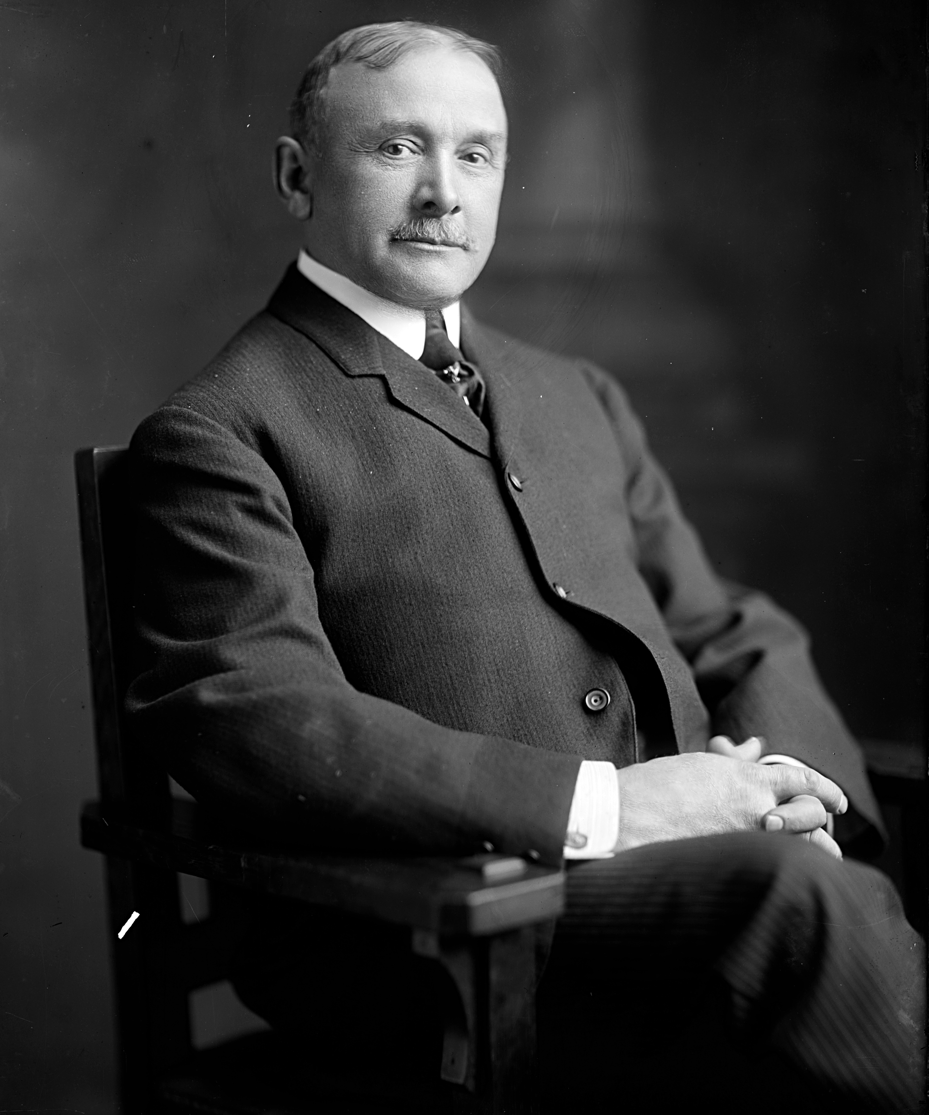 John Kronmiller, US Representative from Maryland